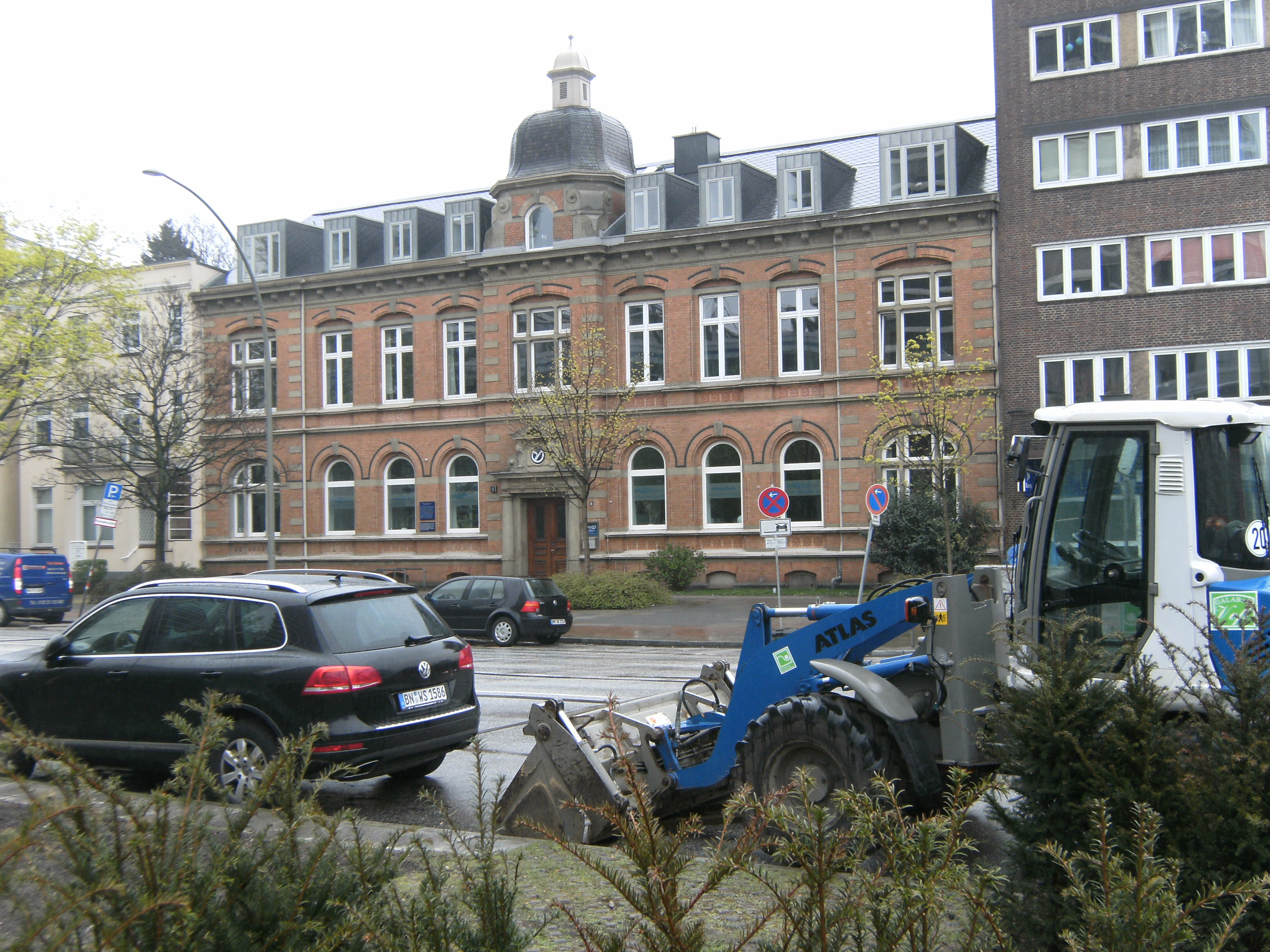 Hamburg-Mundsburg, Germany: Former police station Oberaltenallee (ehemalige Polizeiwache Oberaltenallee). Additional attics after reconstruction. Seat of German Youth for Understanding committee.